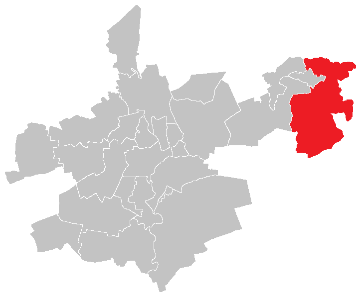 Location map of Olomouc district Lošov